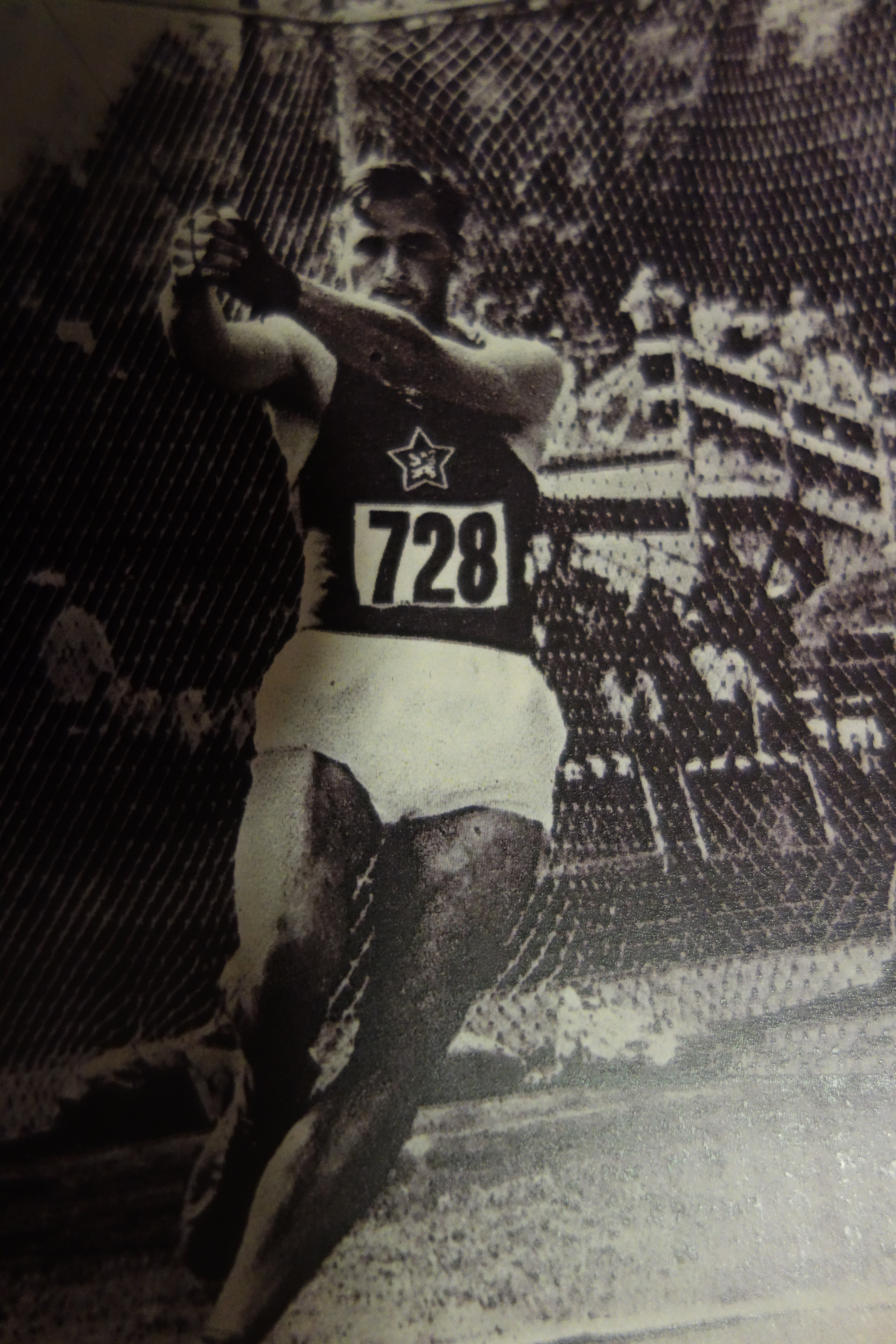 Former Czechoslovakian Olympic athlete who specializes in the hammer throw